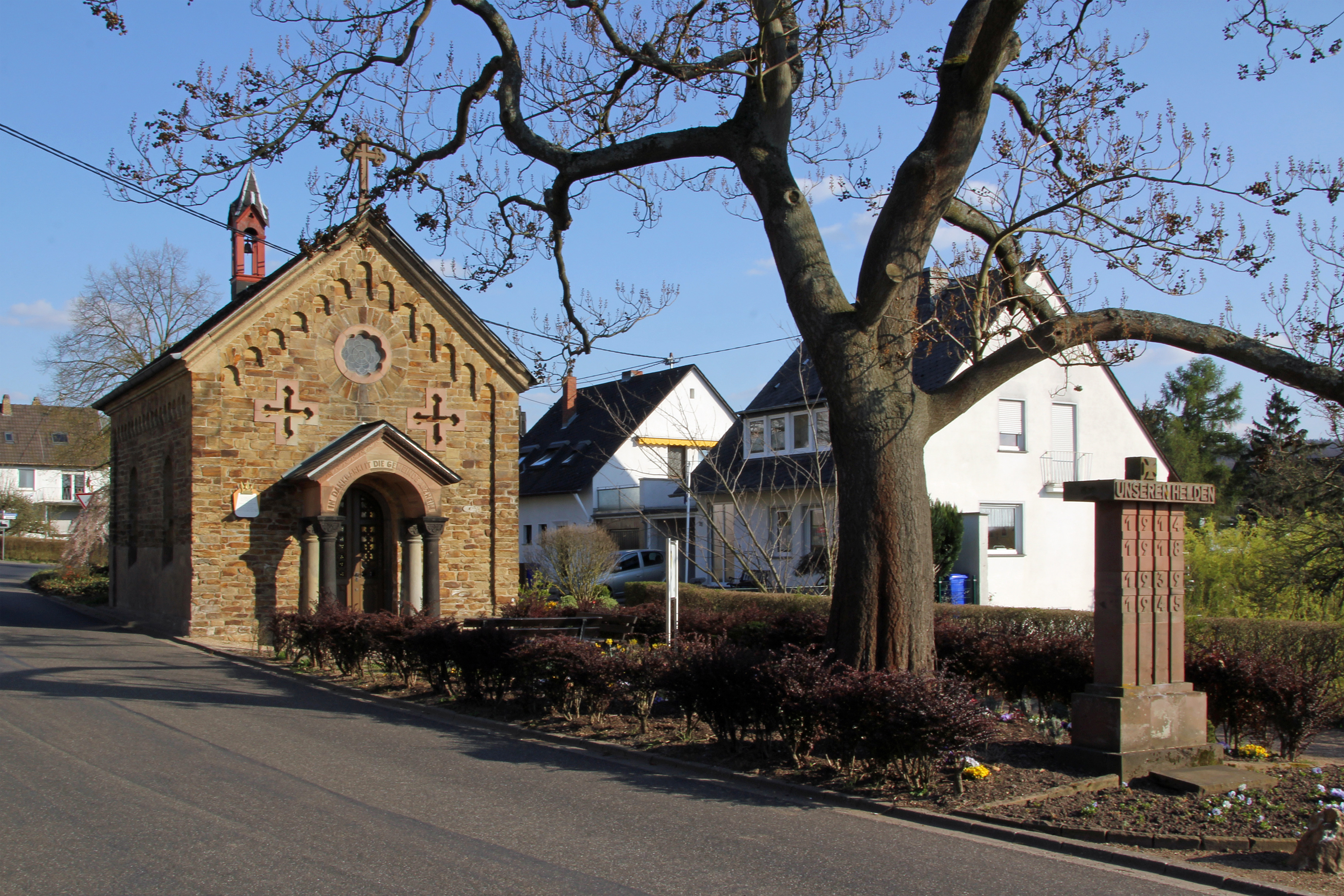 Chapel „Zur Mutter der schönen Liebe“ in Koblenz